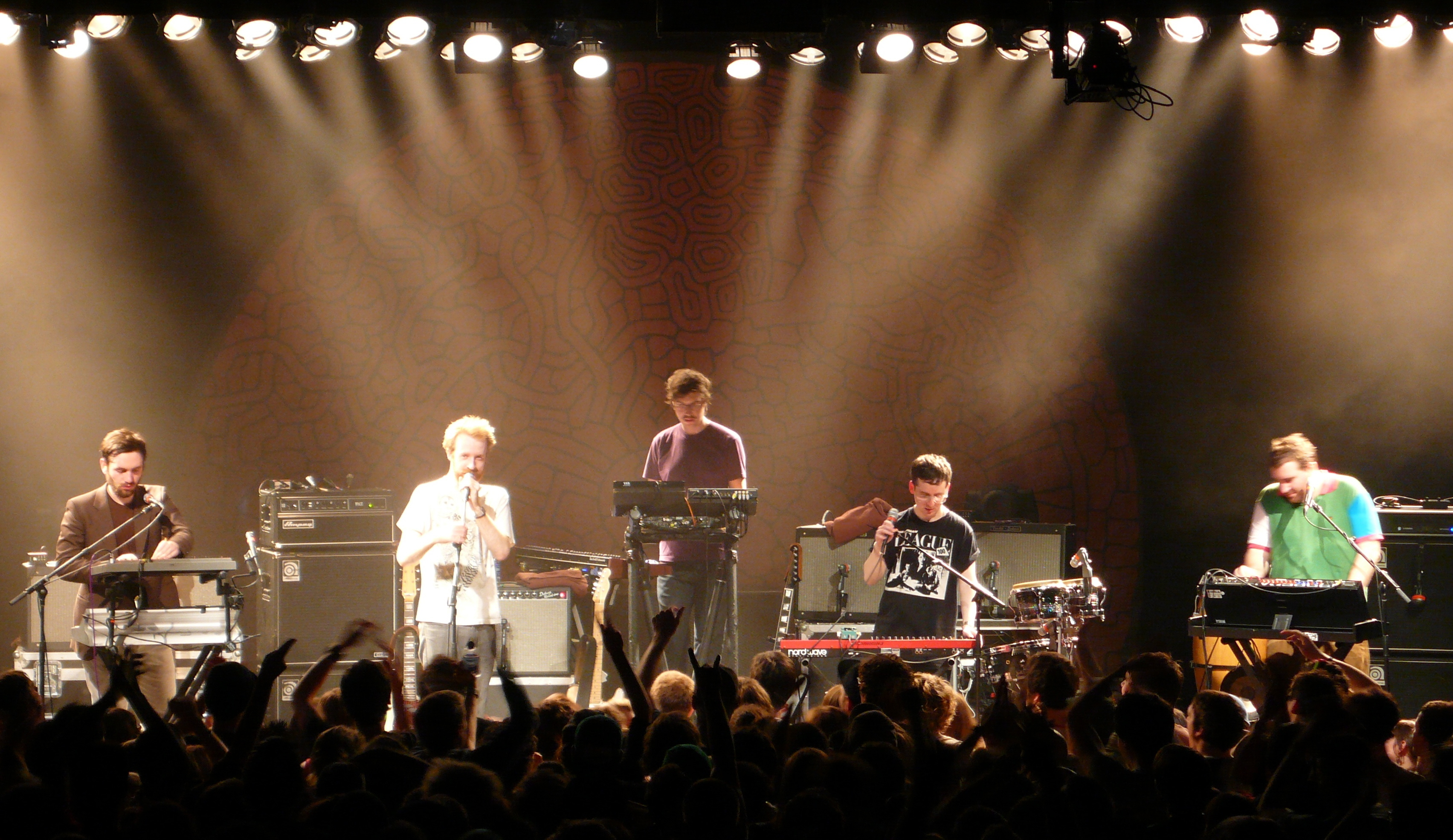 Hot Chip at Commodore Ballroom in Vancouver, Canada